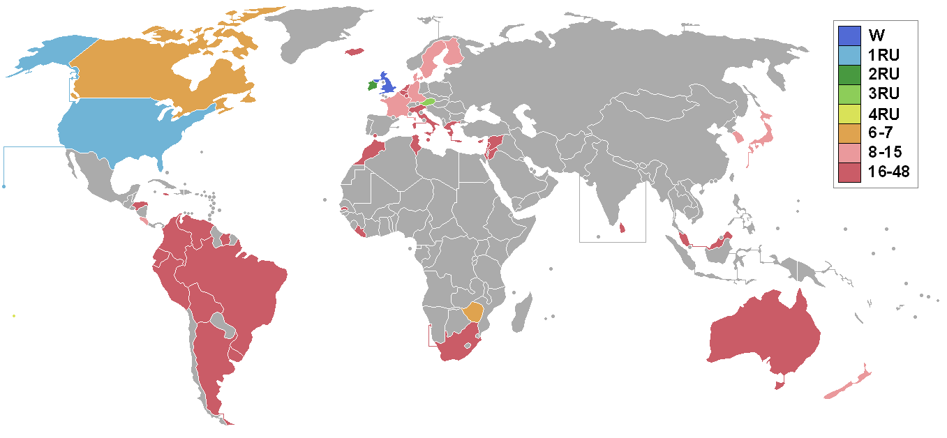 results map